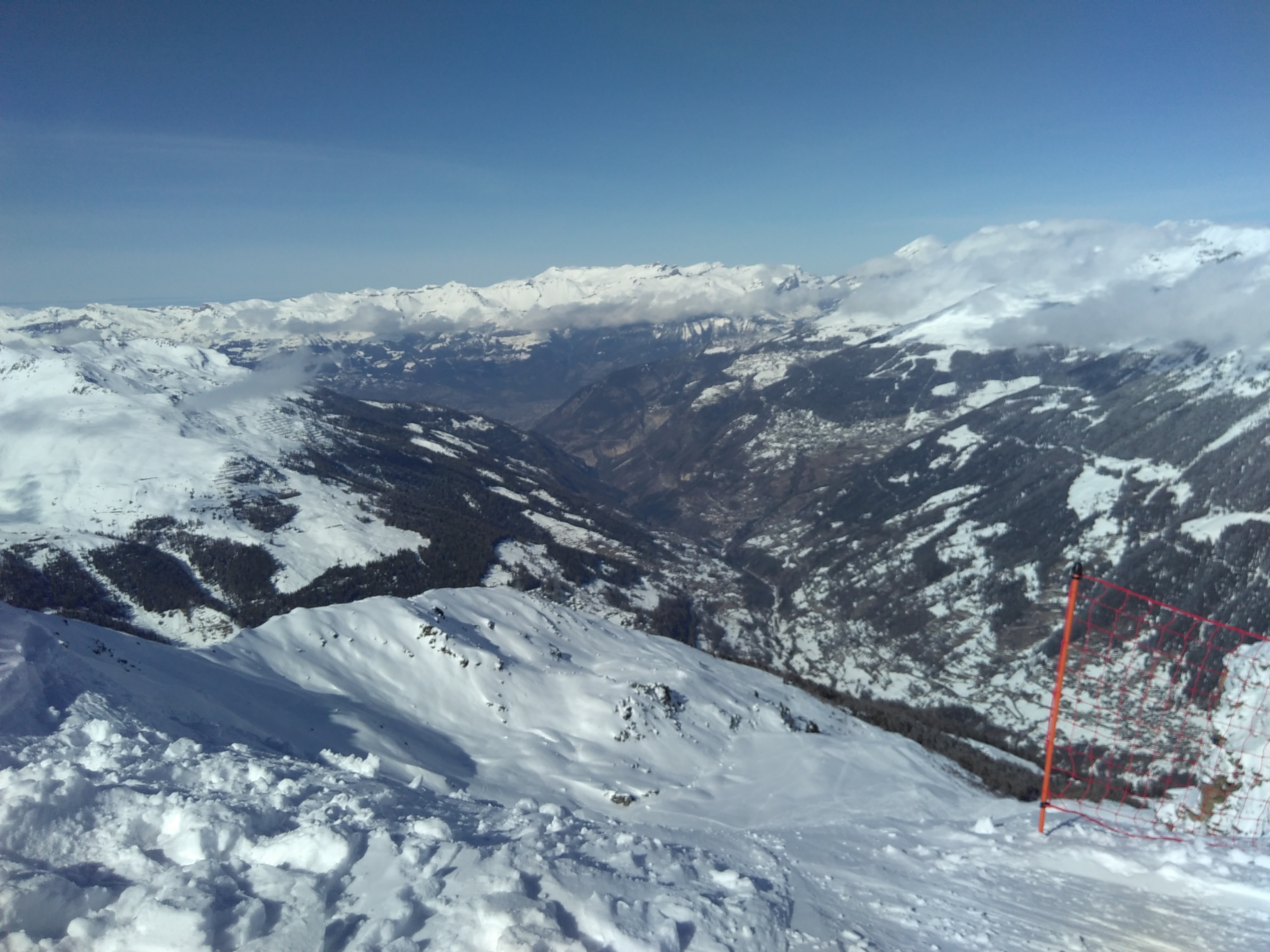 View from the skiing area in Zinal, Switzerland